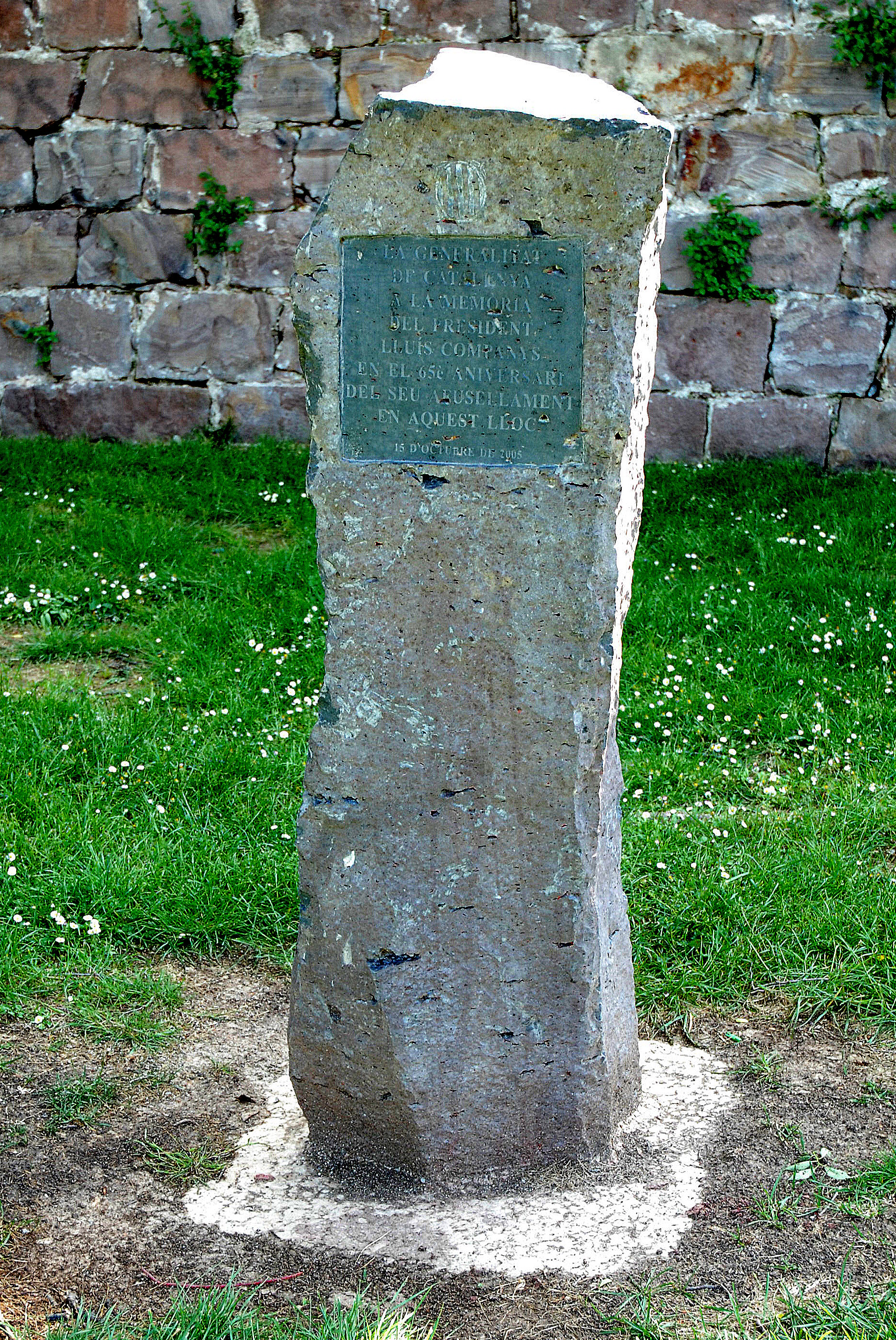 Spot where Lluís Companys was executed - in the moat of the castle of Montjuic, Barcelona, Spain